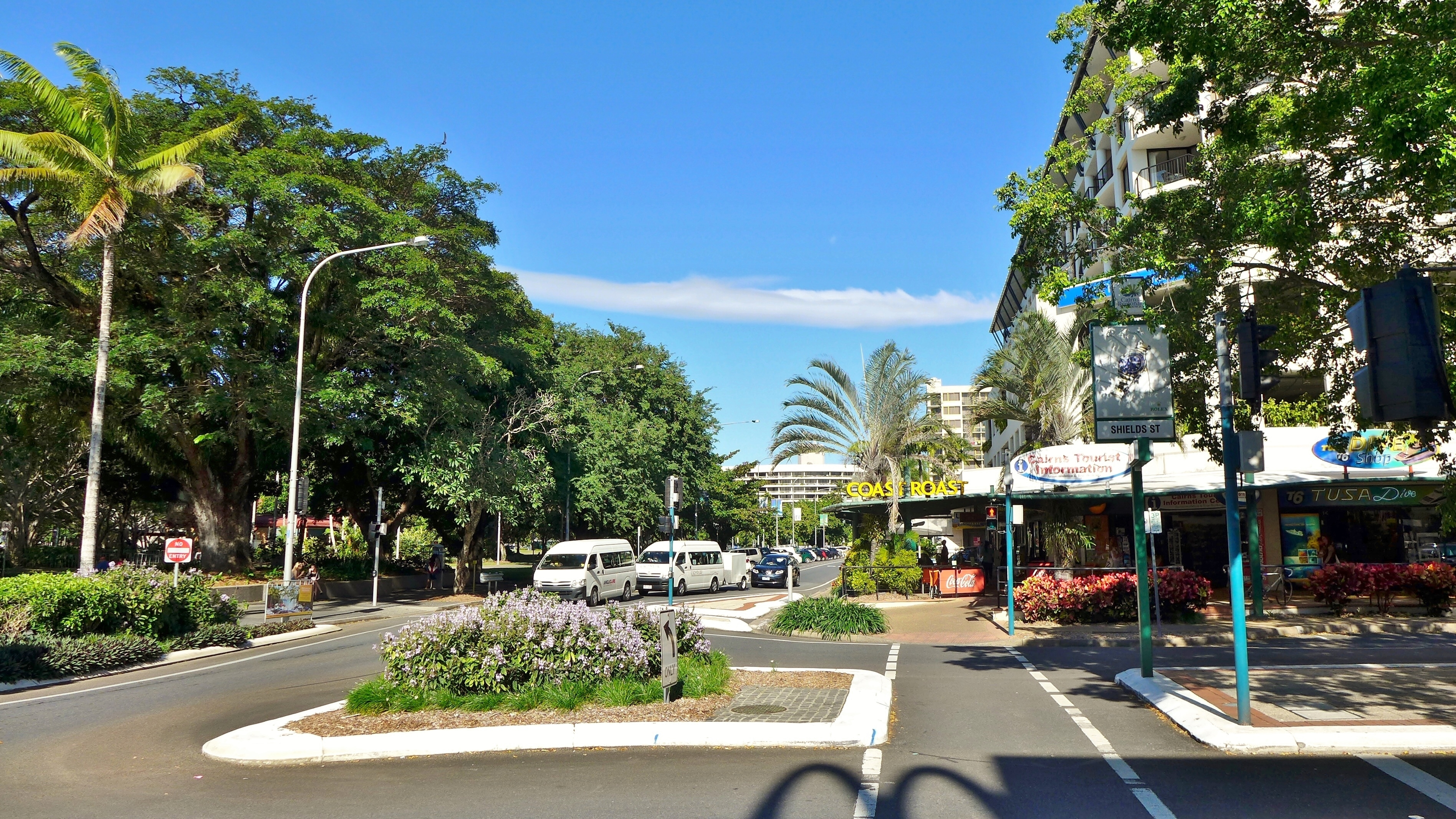 View of the Esplanade, Cairns, Far North Queensland, Australia.